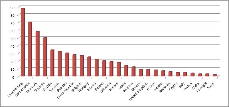 Knowledge of German as a foreign language (second language in Luxembourg) in the EU member states (+Croatia and Turkey), in per cent of the adult population (+15), 2005. Data taken from an EU survey. ebs_243_en.pdf (europa.eu)